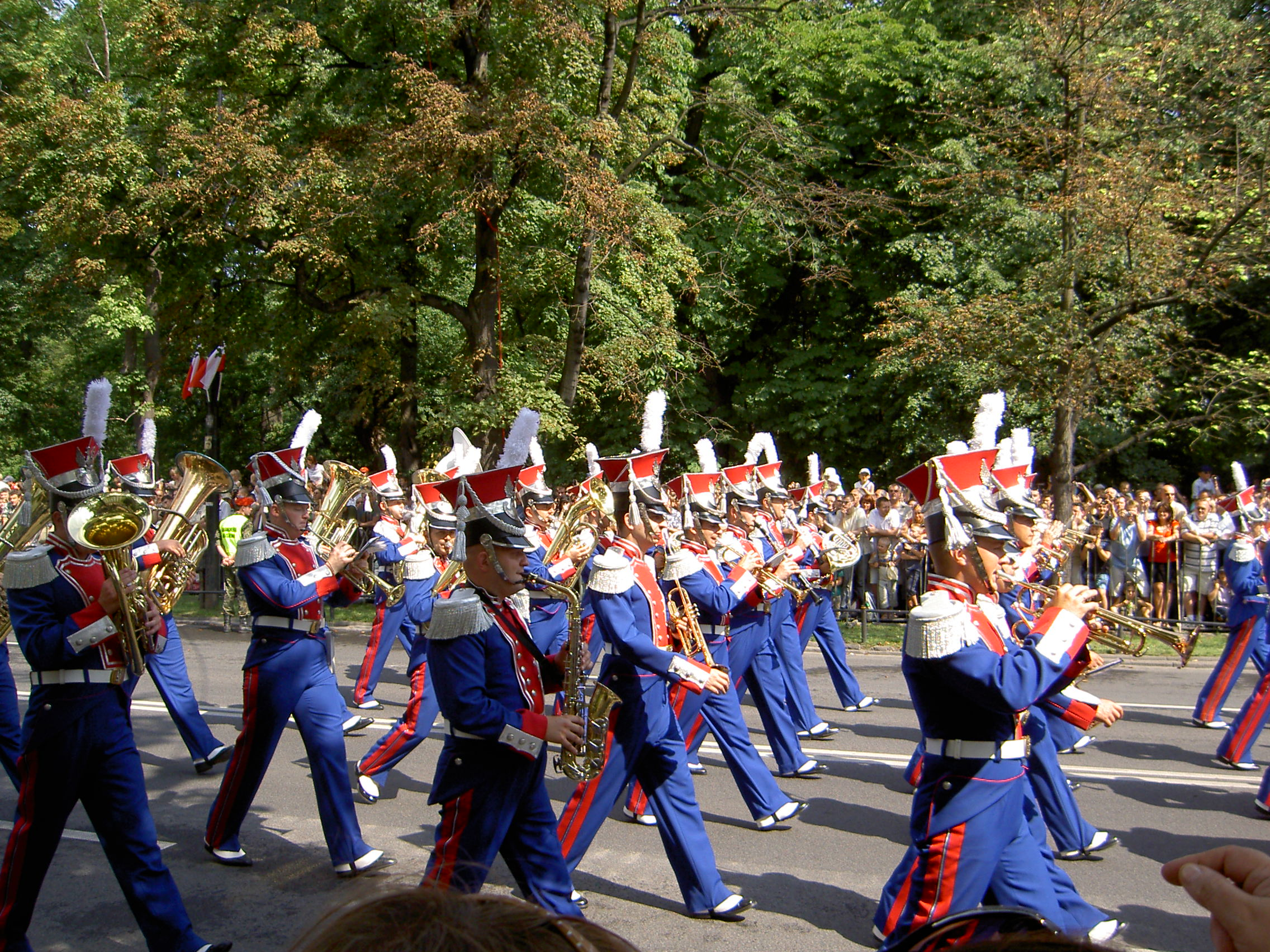 Military orchestra of the Polish Army dressed in historic uniforms.